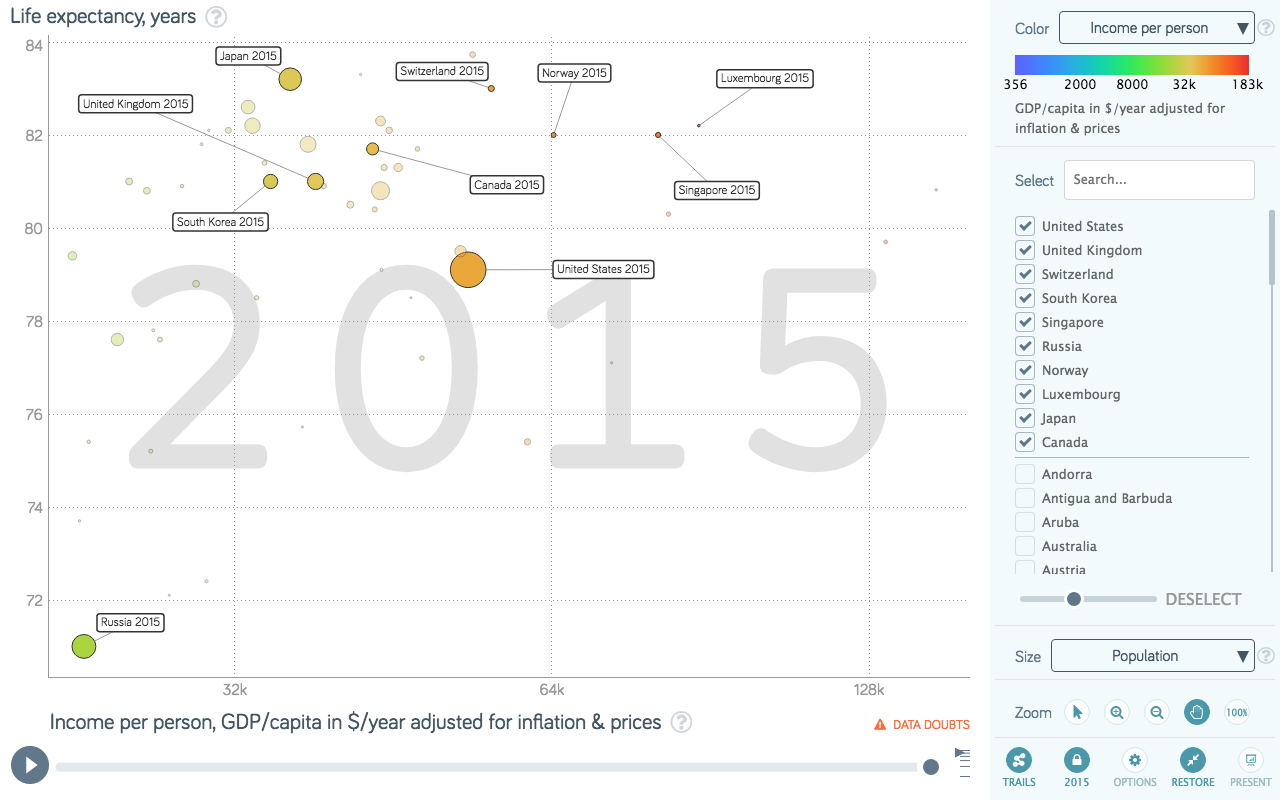 Life Expectancy of high-income countries in 2015.